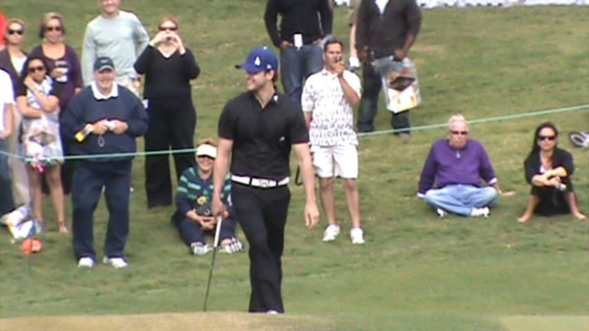 American singer Justin Timberlake during the Justin Timberlake Shriners Hospitals for Children Open in Las Vegas, Nevada. October 15, 2009.